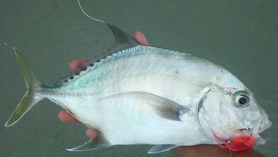 Carangoides dinema, Taiwan